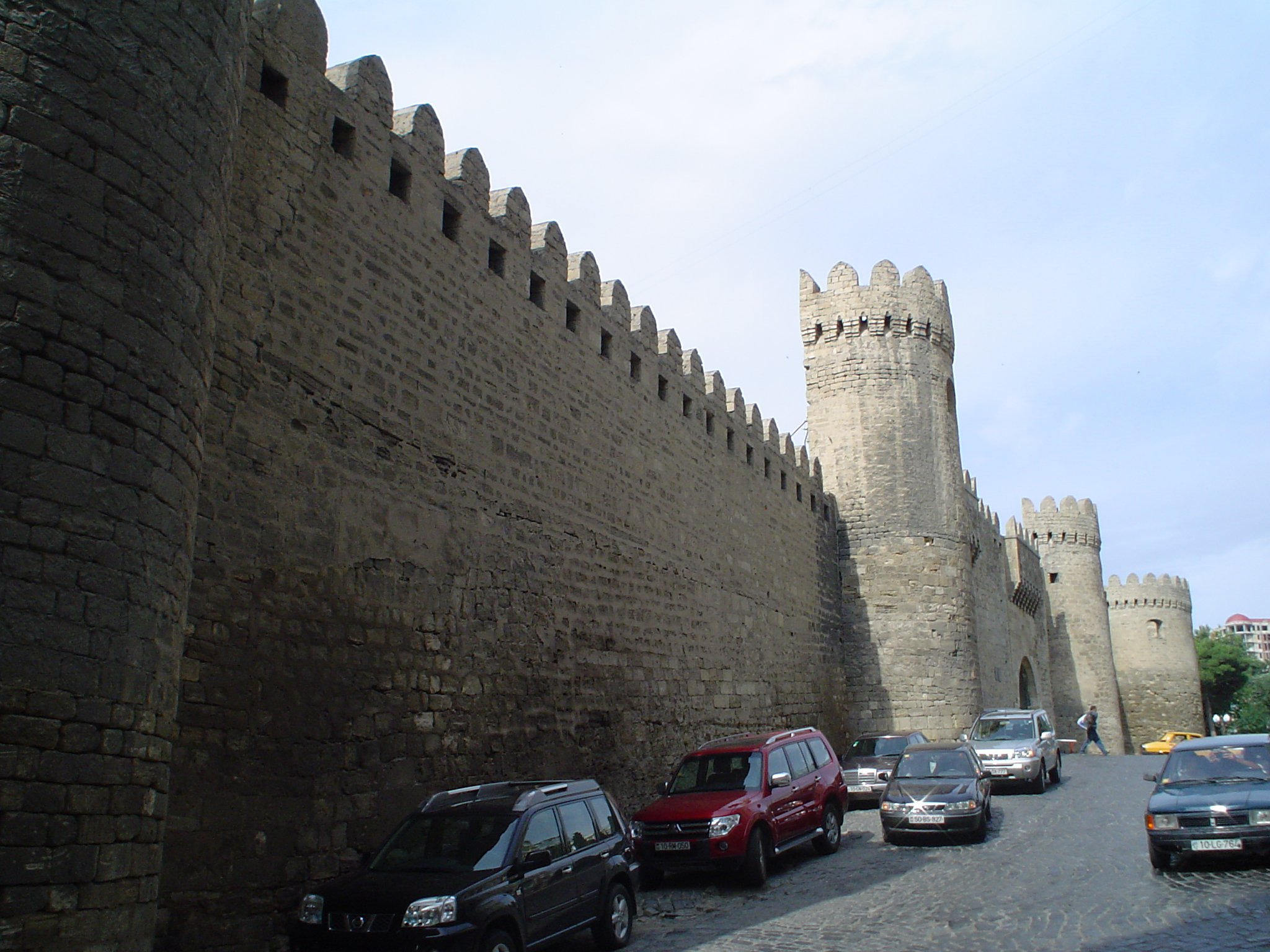 City wall surrounding the Old City in Baku, Azerbaijan.